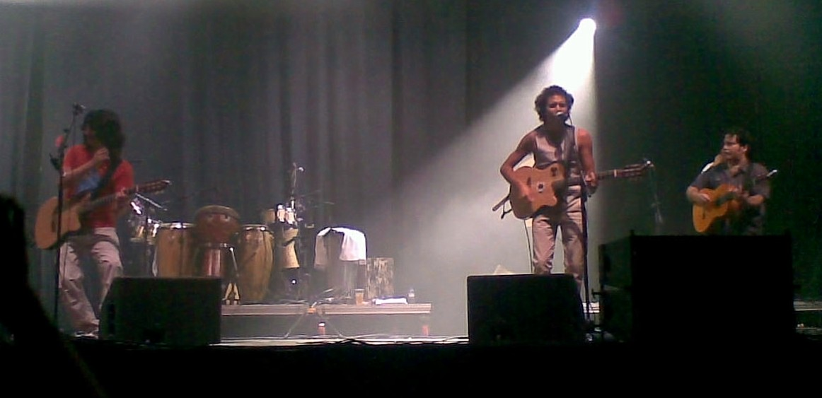 The spanish band Los Delinqüentes in a concert in Barcelona (June of 2008)